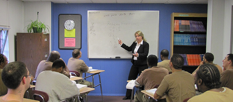 Woman teaching a classroom of male inmates in a US federal prison